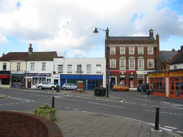 Bagshot Original description: Street scene Bagshot Looking north from Somerfields car park